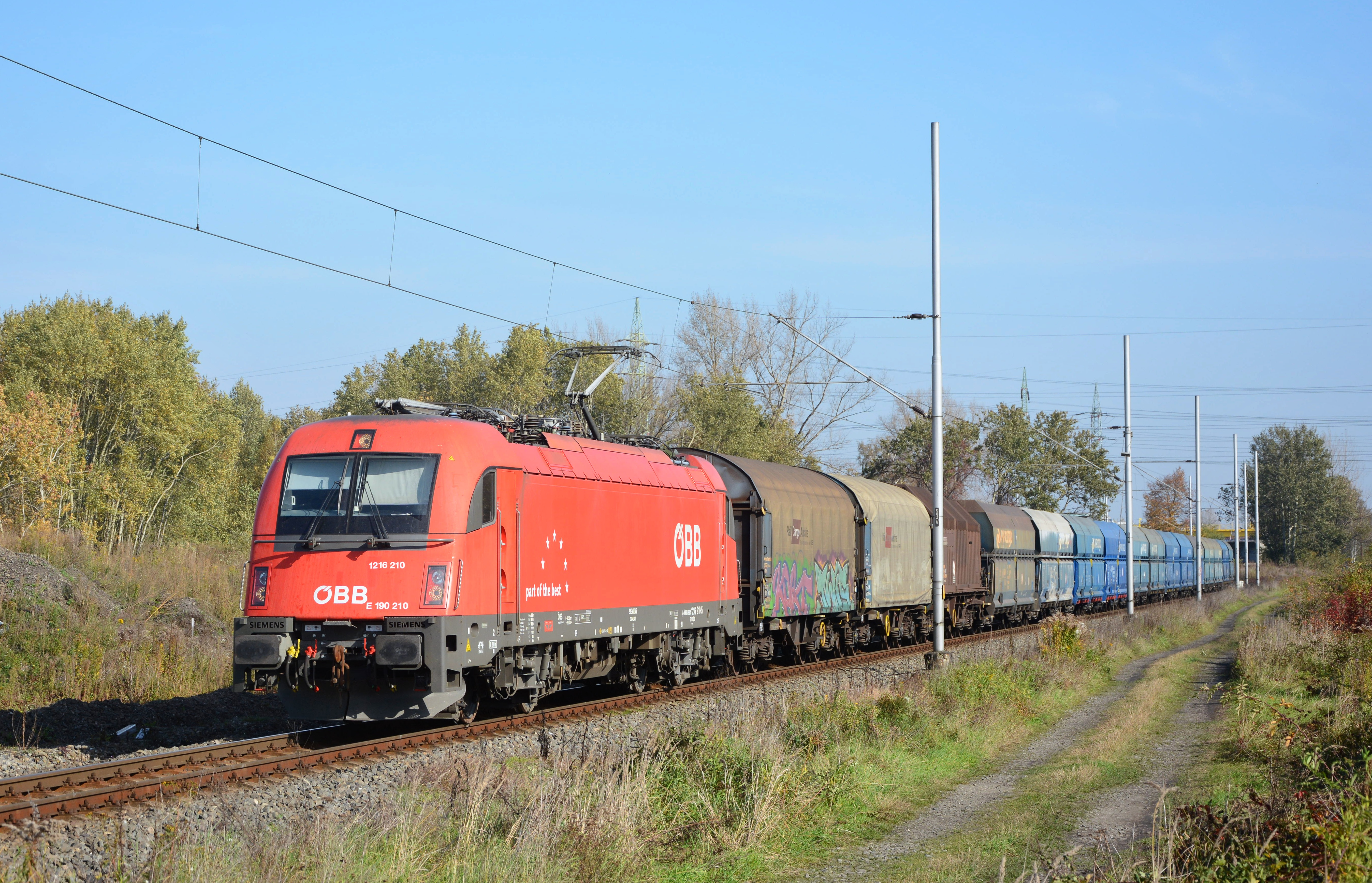 1216 210 ÖBB with a Rail Cargo Carrier - Czech Republic train; between Chałupki (PL) and Bohumín-Vrbice (CZ) stations, Czech Republic